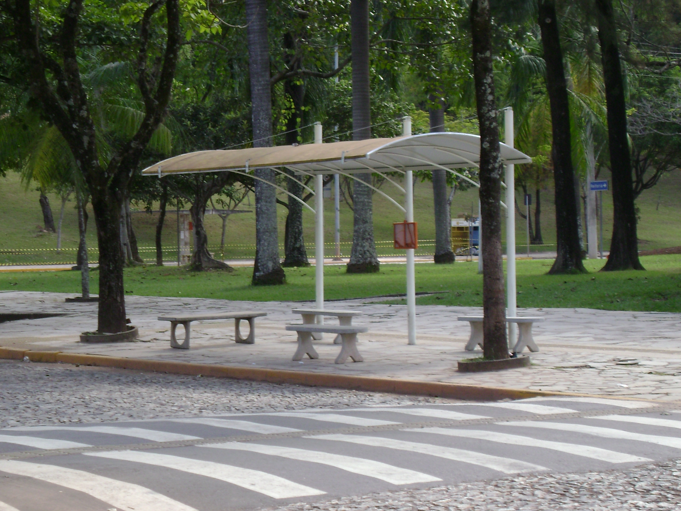 Ponto de ônibus dentro do campus Pampulha da UFMG.